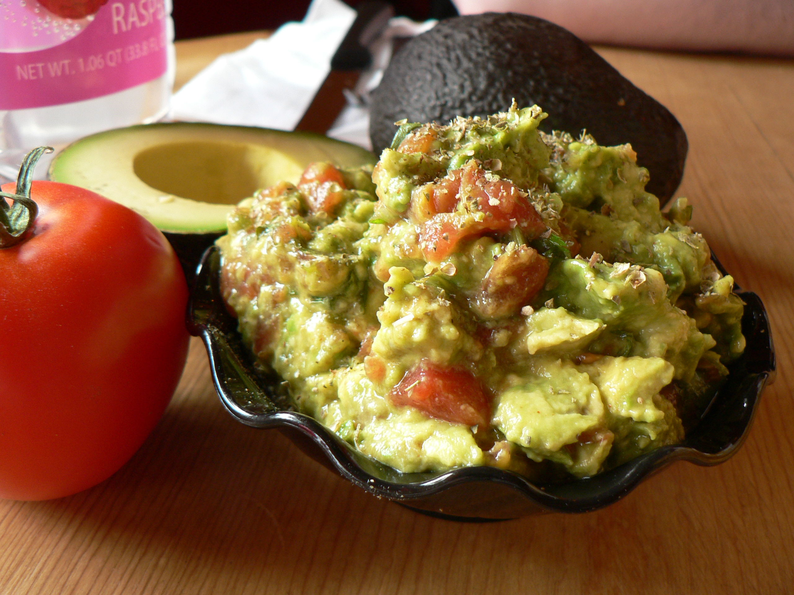 A bowl of guacamole beside a tomato and a cut avocado, as served by the El Tango Taqueria in Lakewood, Ohio, USA (part of the Greater Cleveland Metropolitan area). The photographer noted on Flickr that the "chef/owner brought over the avocados and tomato after he saw the camera" and that it was "[m]ade fresh to order".